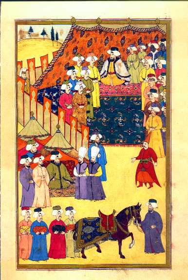 The Surname-I Hümayun (Imperial Festival Book) were albums that commemorated celebrations in the Ottoman Empire in pictorial and textual detail. Here, the various guilds found in the Ottoman take part in the festivals, often through parades and processions.